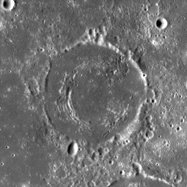 Crater Runge (diam. 39 km) on the Moon, in Mare Smythii. Coordinates of center of the crater are 2.4°S, 86.8°E. Mosaic of photos by Lunar Reconnaissance Orbiter, made with Wide Angle Camera. Width of the photo is 70 km, north is up.